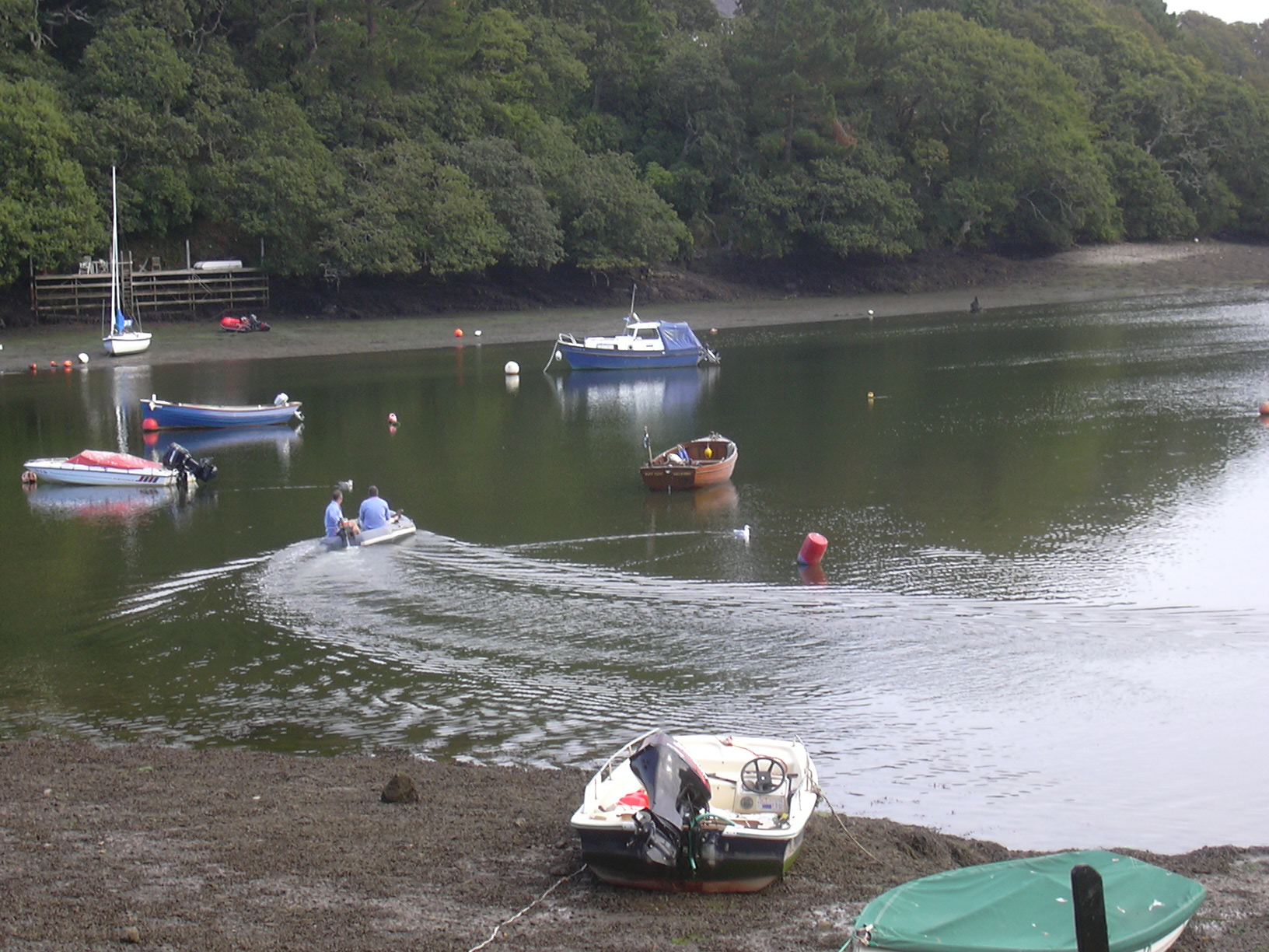 Porth Navas: Save the Children Shop.